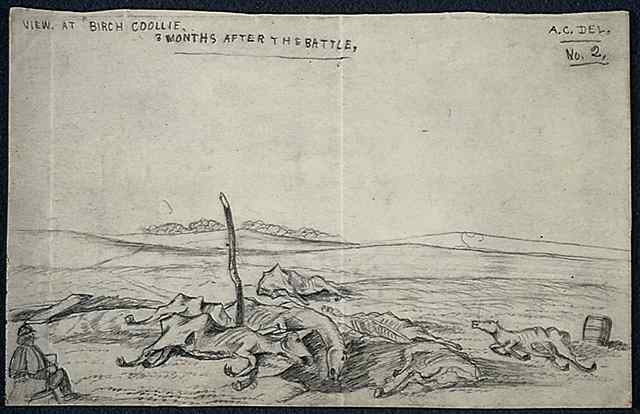 Drawing depicting the battlefield at Birch Coulee, two months after the incident. Artist: Albert Colgrave (-1863) Art Collection, Graphite ca. 1862 Location no. AV1981.324.7 Negative no. 63132